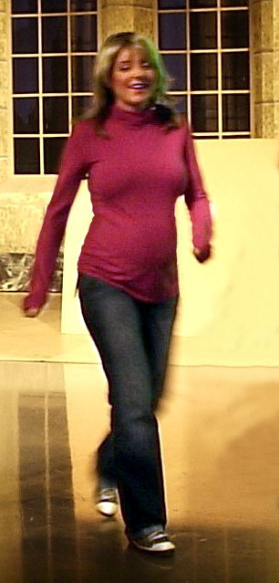 Photo of Jessica Holmes, in Toronto at CBC studios By Mike Babcock, 26 October 2006 Source: from Flickr, Licence declaration